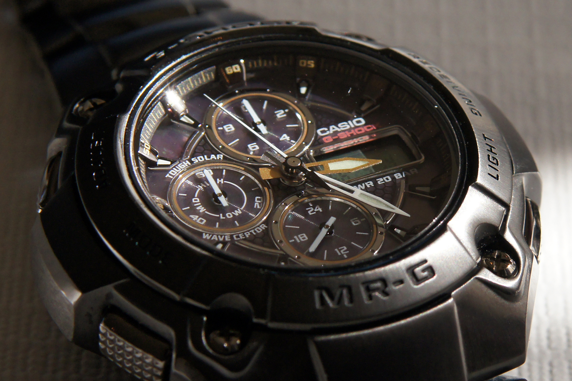 Casio G-SHOCK MR-G The G MRG-7100BJ-1AJF